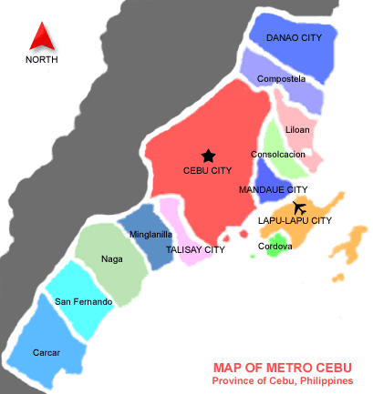 Map of Metro Cebu, Philippines